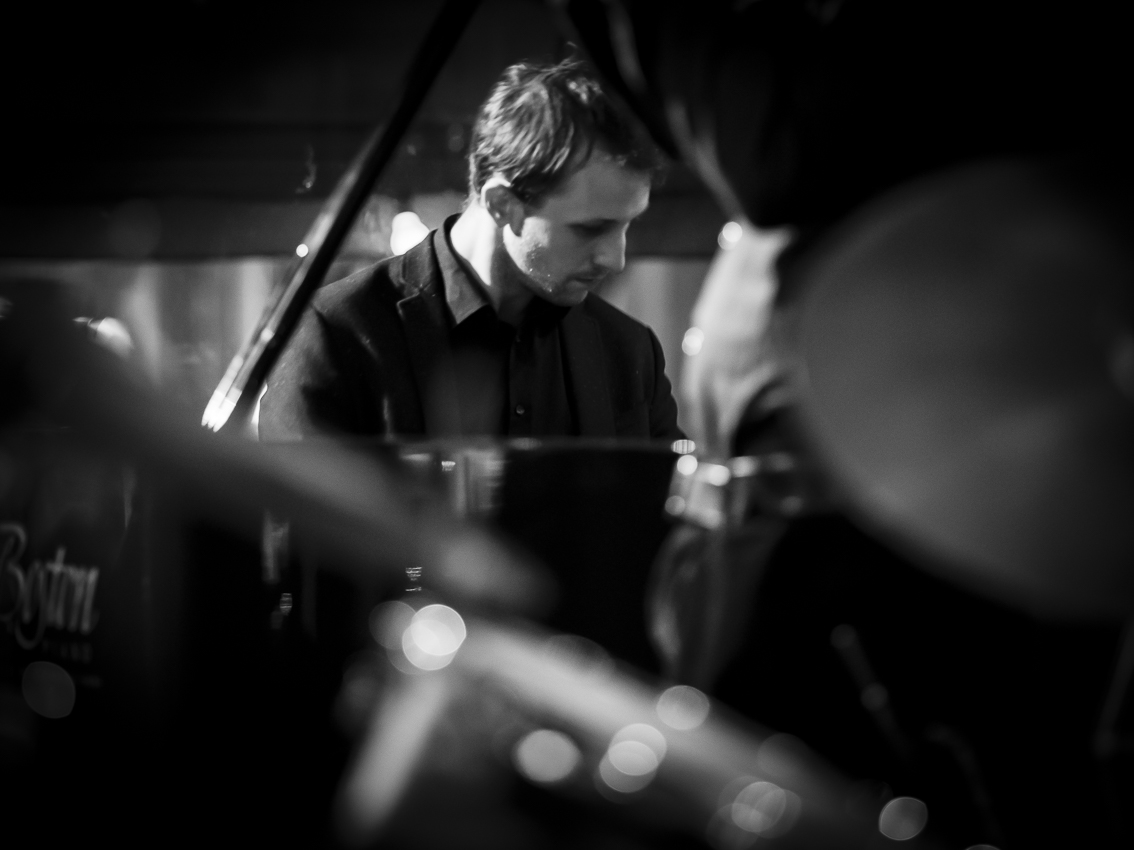 Johannes von Ballestrem in the ZigZag Jazz Club Berlin during a concert with "The Tin Alley Quartett"